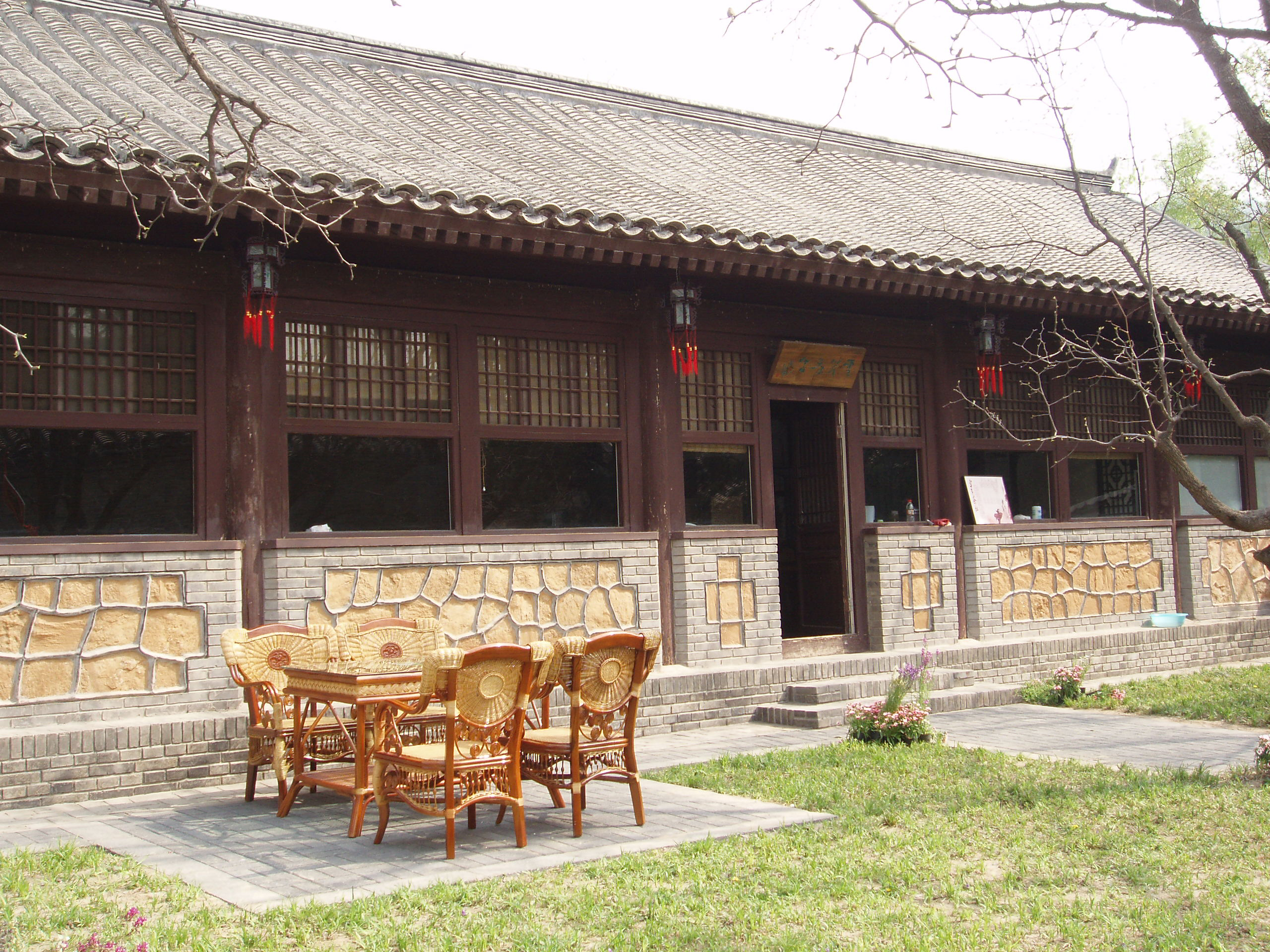 Former residence of Cao Xueqin, the author of Dream of the Red Chamber, in suburban of Beijing.